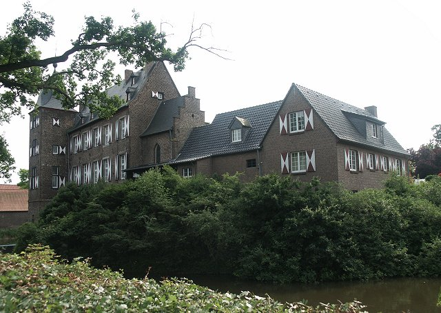 Kühlseggen Castle